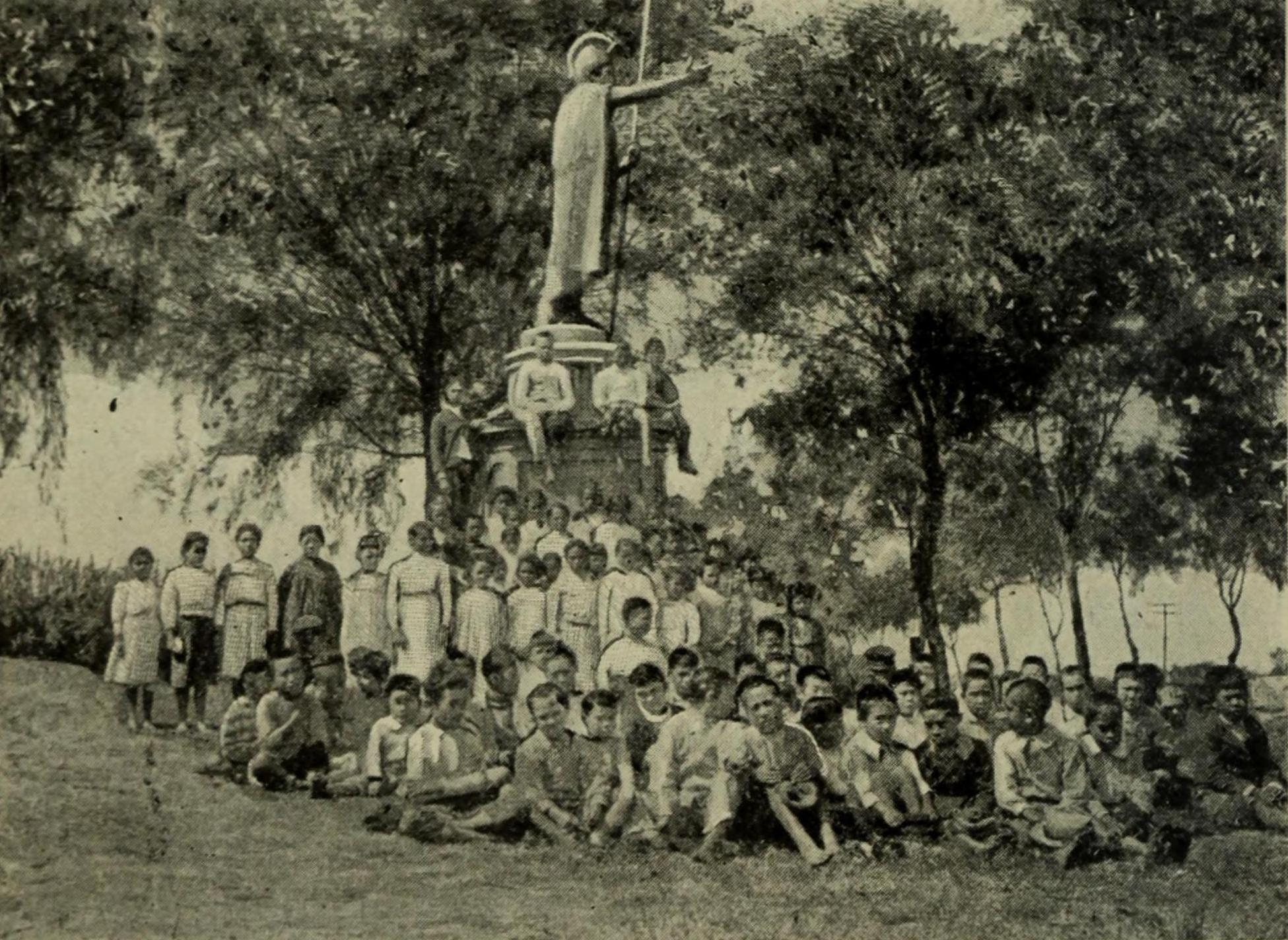 Drawing of schoolchidren of plantation workers in front of the statue of King Kamehameha I standing in Kapaʻau in Honolulu. Sculpted in 1881, bronze. Approx 8½ feet tall on a 10 foot concrete base. The pedestal has four bronze and gold leaf plaques with scenes from Kamehameha's life. Sculptor: Thomas Ridgeway Gould (1818–1881). This was the original casting that was recovered after a shipwreck in the Falklands. It was placed in front of the schoolhouse. Today, a visitor center stands at the location.